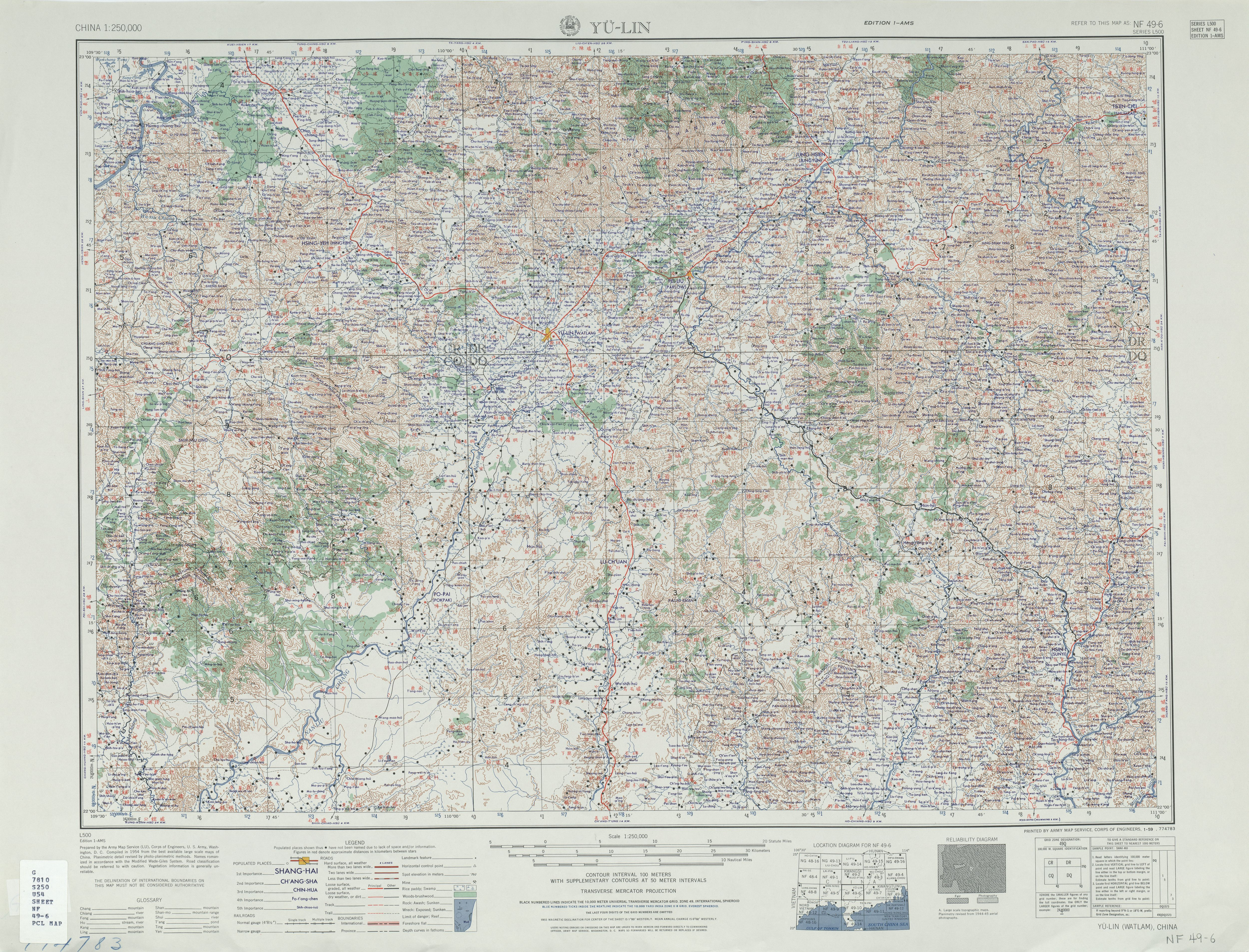 China AMS Topographic Maps